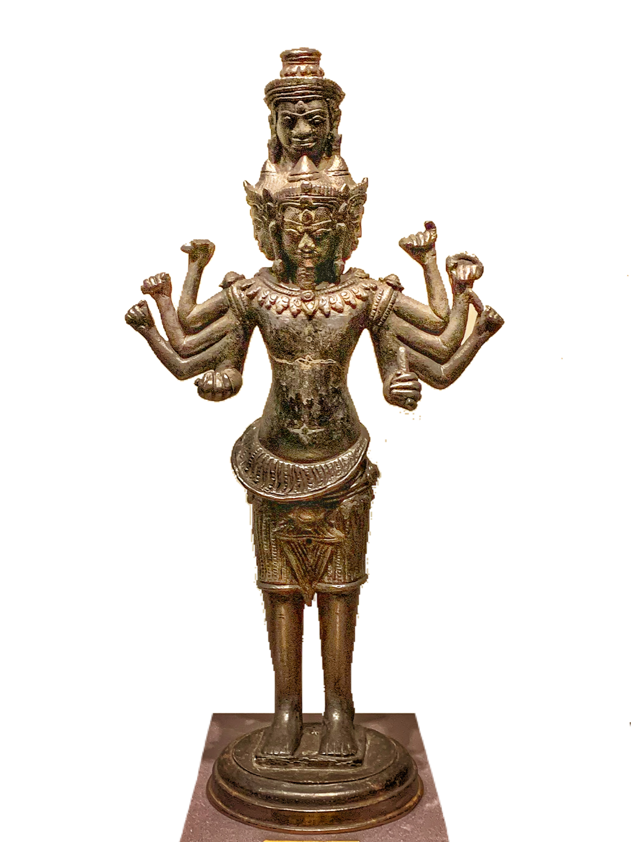 Sadashiva idol on display at Bangkok National Museum